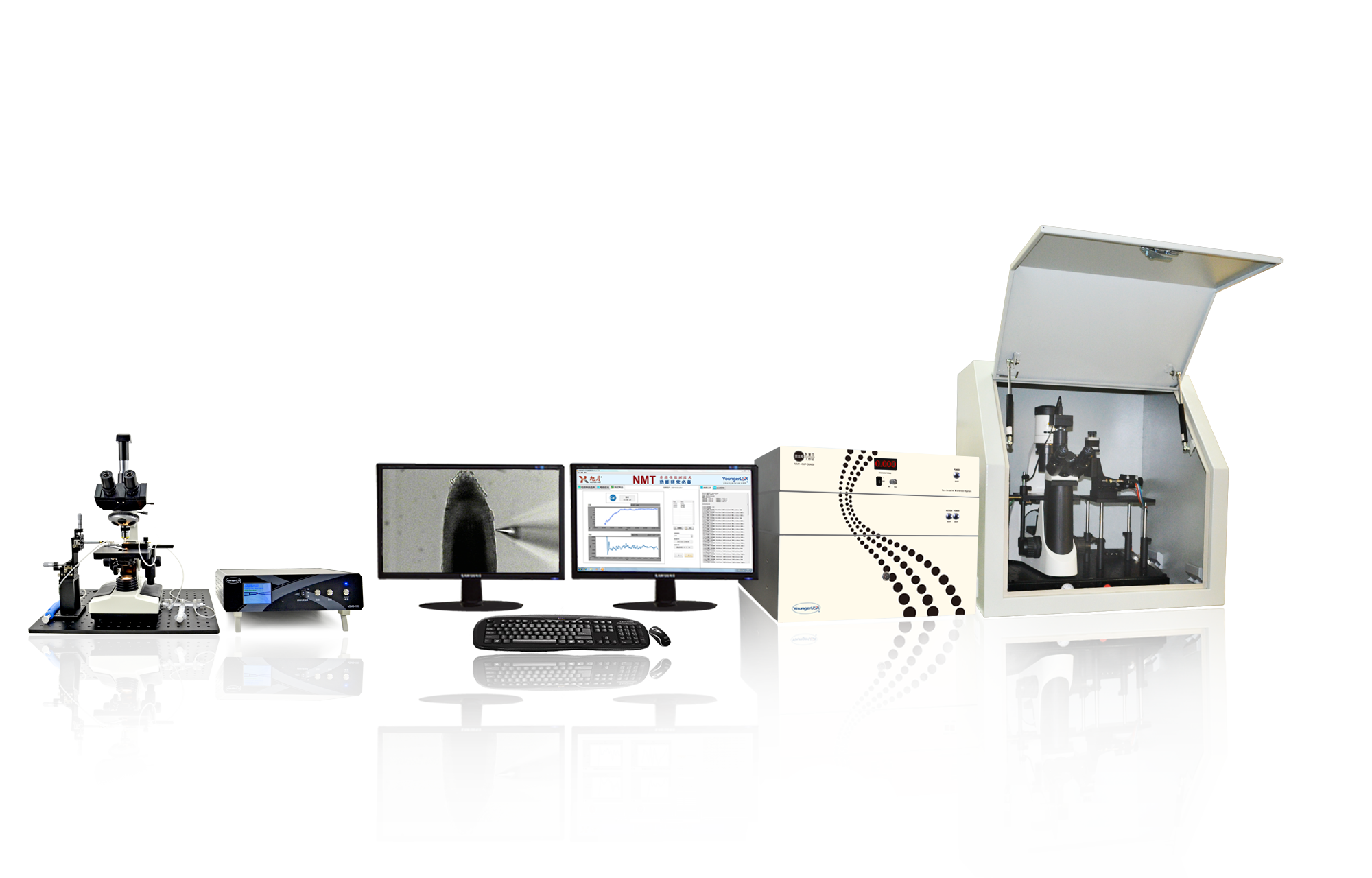 A picture of what an full set of equipment that makes up a non-invasive micro-test technology (NMT) system may look like. A Faraday cage holds the microscope and flux sensor manipulator to block interference, while a computer system controls and calculates from the outside.